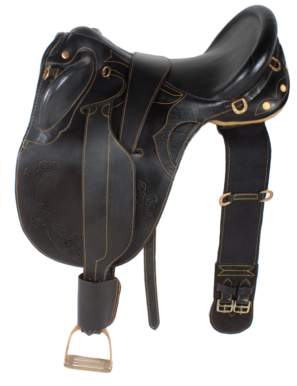 Australian Saddle No Horn